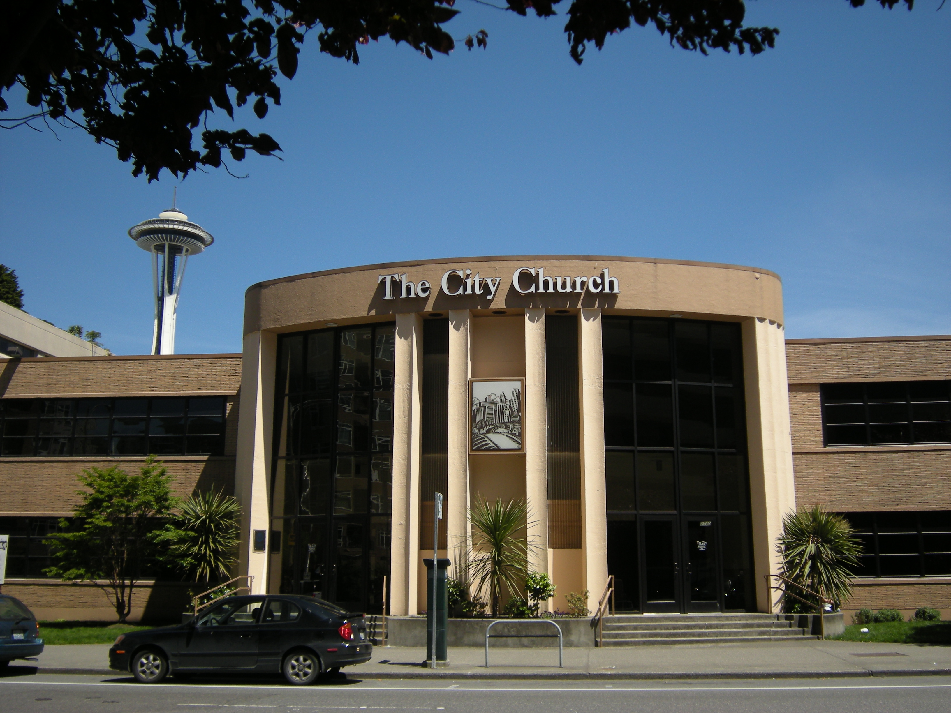 City Church, formerly International Brotherhood of Electrical Workers (IBEW) Local #46, 2712 1st Avenue, Belltown, Seattle, Washington. More information at Summary for 2712 1st AVE / Parcel ID 0654000045, Seattle Department of Neighborhoods. Space Needle in background.